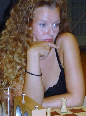 Actress Vaile